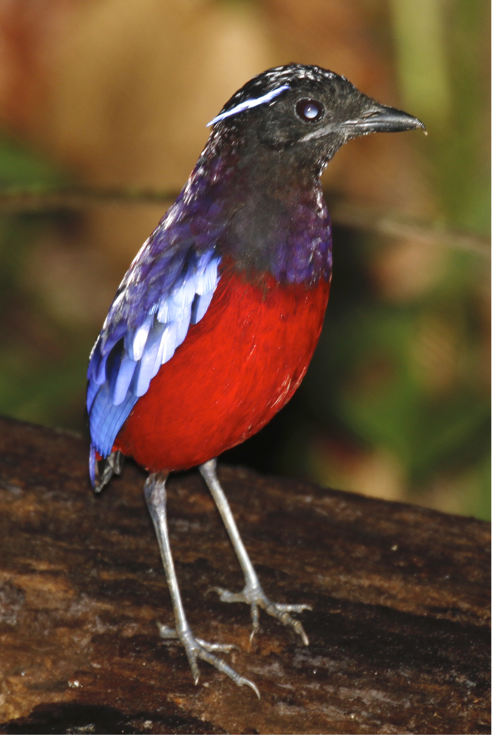 Sepilok Nature Resort Sabah, Borneo - Malaysia